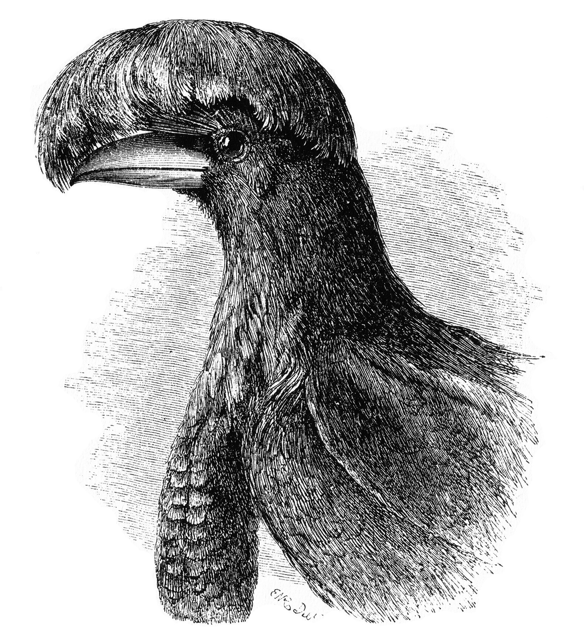 Caption: "Umbrella Bird."